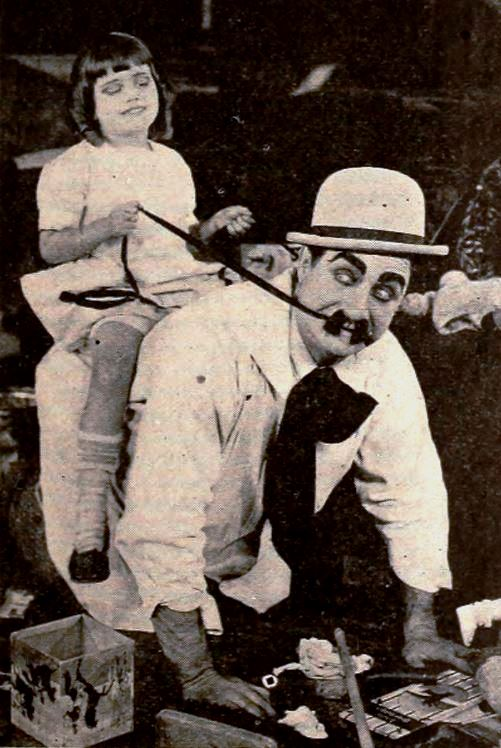 Still from the American comedy short film The Decorator (1920) with a child actress and Jimmy Aubrey, on page 57 of the August 21, 1920 Exhibitors Herald.